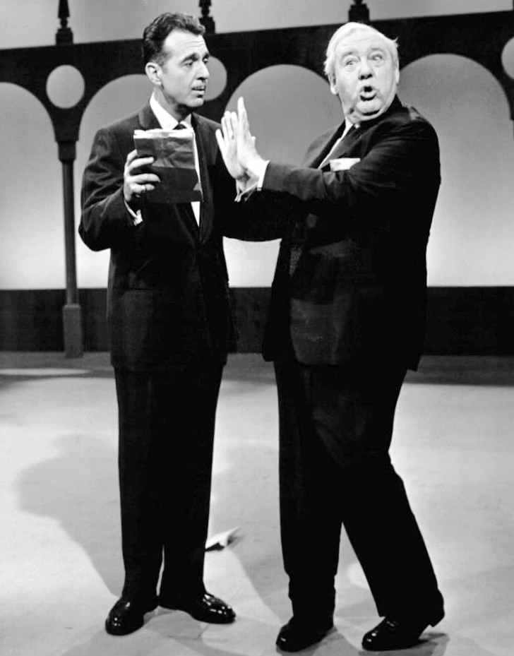 Photo of host Tennessee Ernie Ford and guest star Charles Laughton from the television program The Ford Show. The photo shows Laughton declining to read a poem from the show's unofficial poet, Fred Wobbly. Wobby's verses were frequently read on the program and were always written on a brown paper bag.